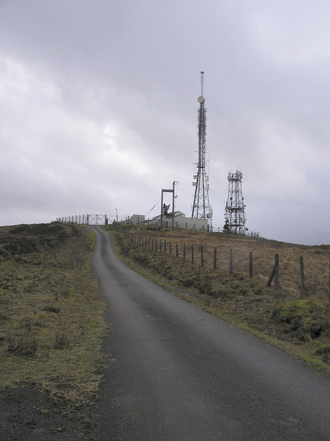 Approaching the Masts on top of Brougher mountain The view is taken looking up the south-west approach road to main mast area which is in the adjoining square H3452.